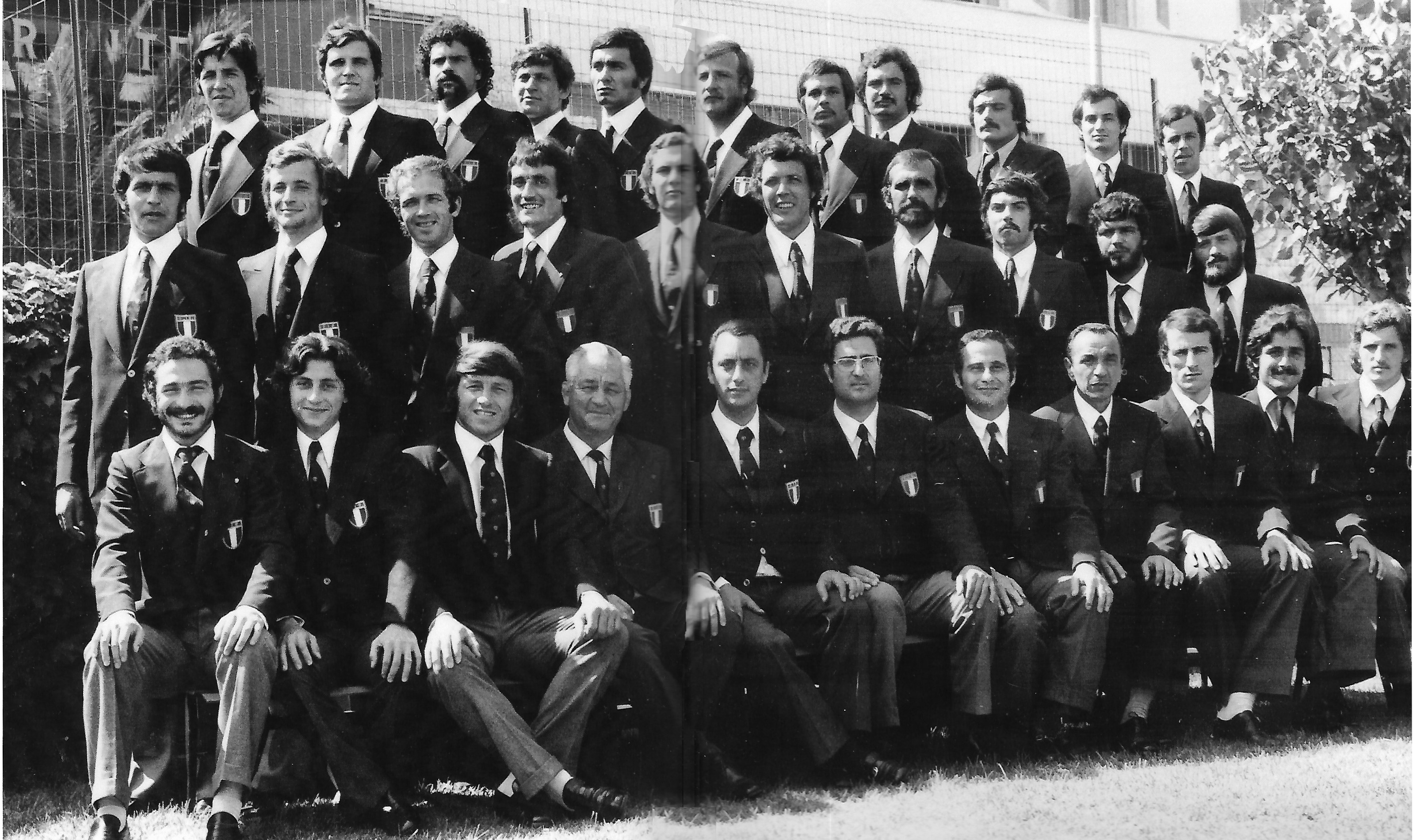 Rome, June 1973.Group photograph of Italy national rugby union team before their Southern African tour.Top row: Nello Francescato, Loranzi, Luchini, Gargiullo, Bona, Altigieri, Paoletti, Spagnoli, Puppo, Molinari, Visentin; mid row: Caligiuri, Rocca, Salsi, Bonetti, Fedrigo, Cossara, Quaglio, Elio De Anna, Ganzerla, Abbiati; front row: Lazzarini, Pitorri, Bollesan (captain), Amos du Plooy (technical advisor), G. Alessandra (team manager), Sergio Luzzi Conti (president of the Federation), Gianni Villa (head coach), Savoia (assistant coach), Pulli, Cinti, Arturo Bergamasco.